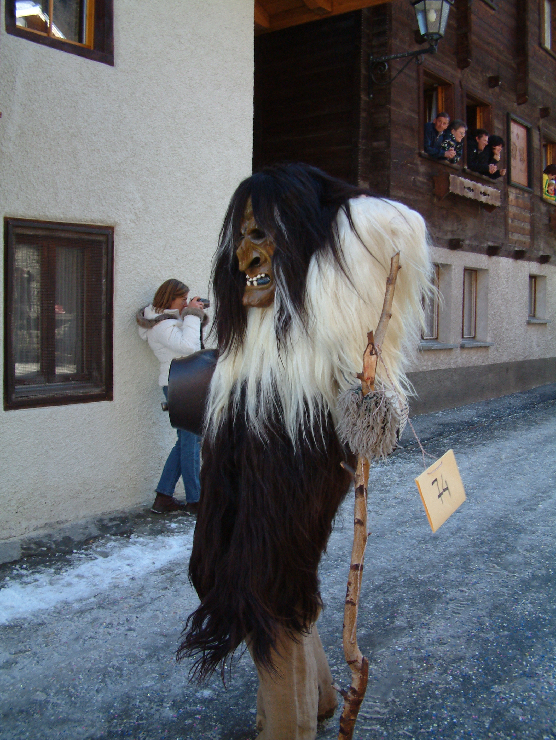 Tschäggättä, costumed figures wearing wooden masks during Carnival in Lötschental/Switzerland. Displayed at Lötschentaler Museum - Kippel.